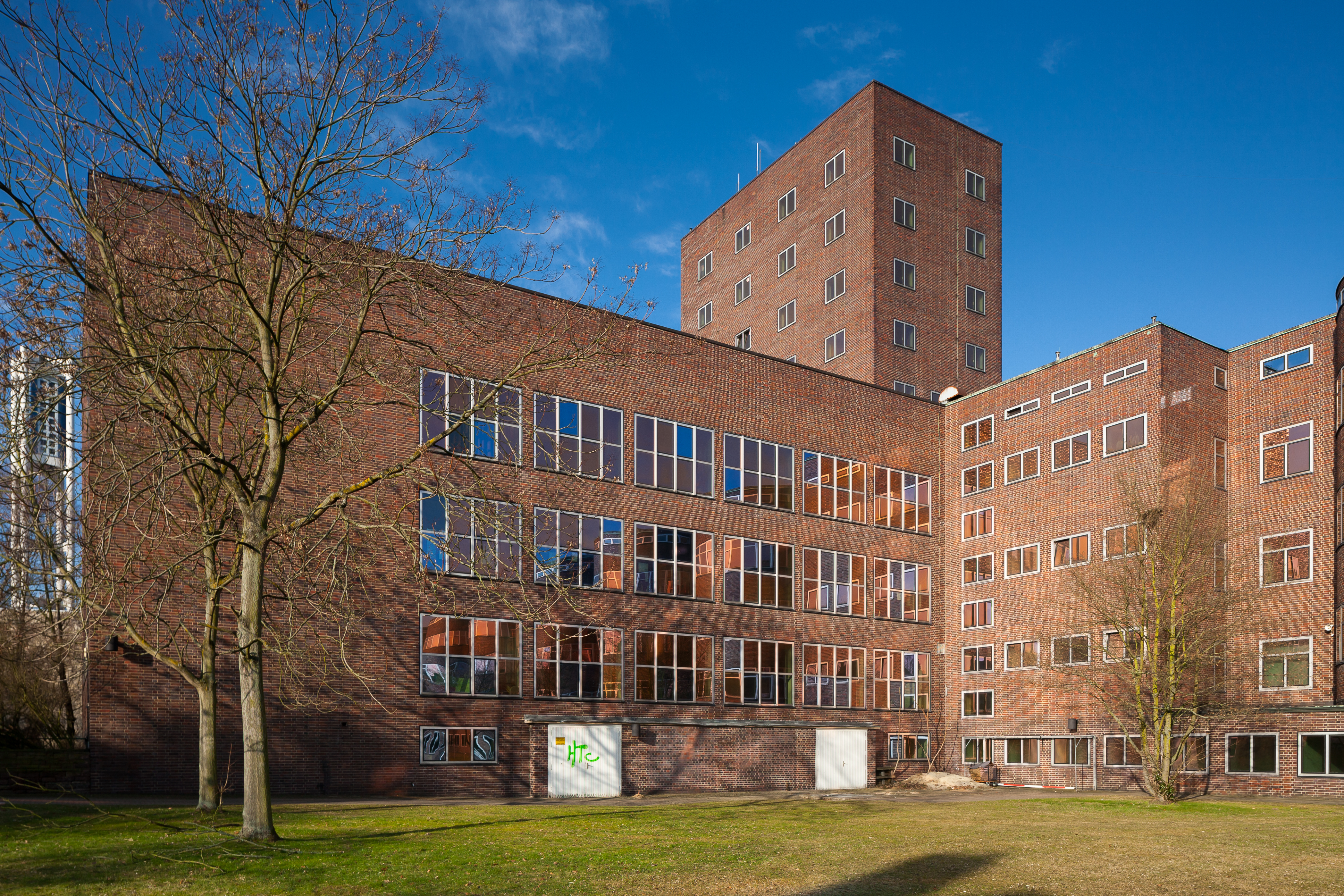 Akademiegebäude (school building) located at Bismarckstrasse in Suedstadt quarter of Hannover, Germany.